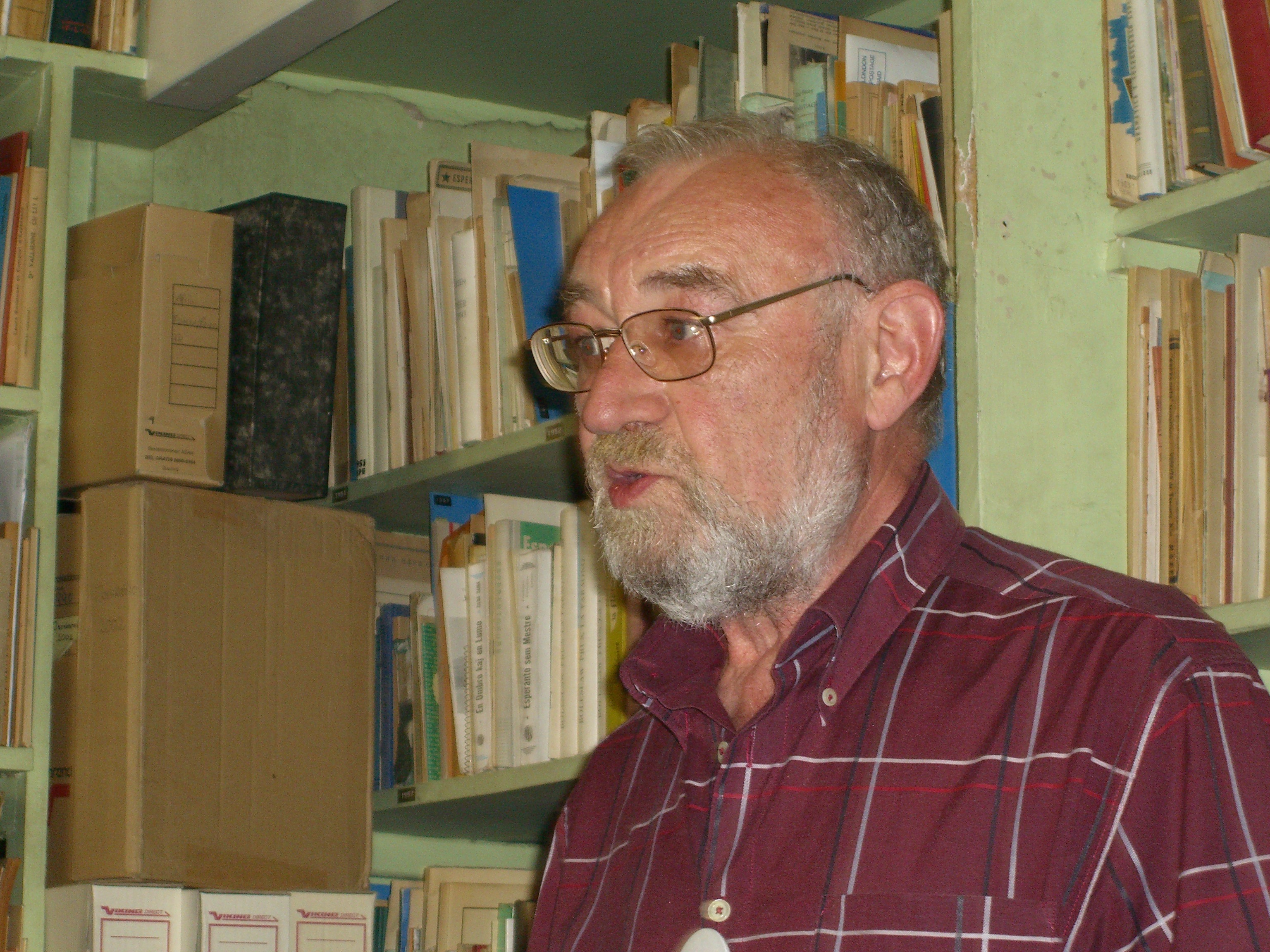 Priskribo Picture of Stefan Maul, I made myself on May 13th 2006 in Rotterdam